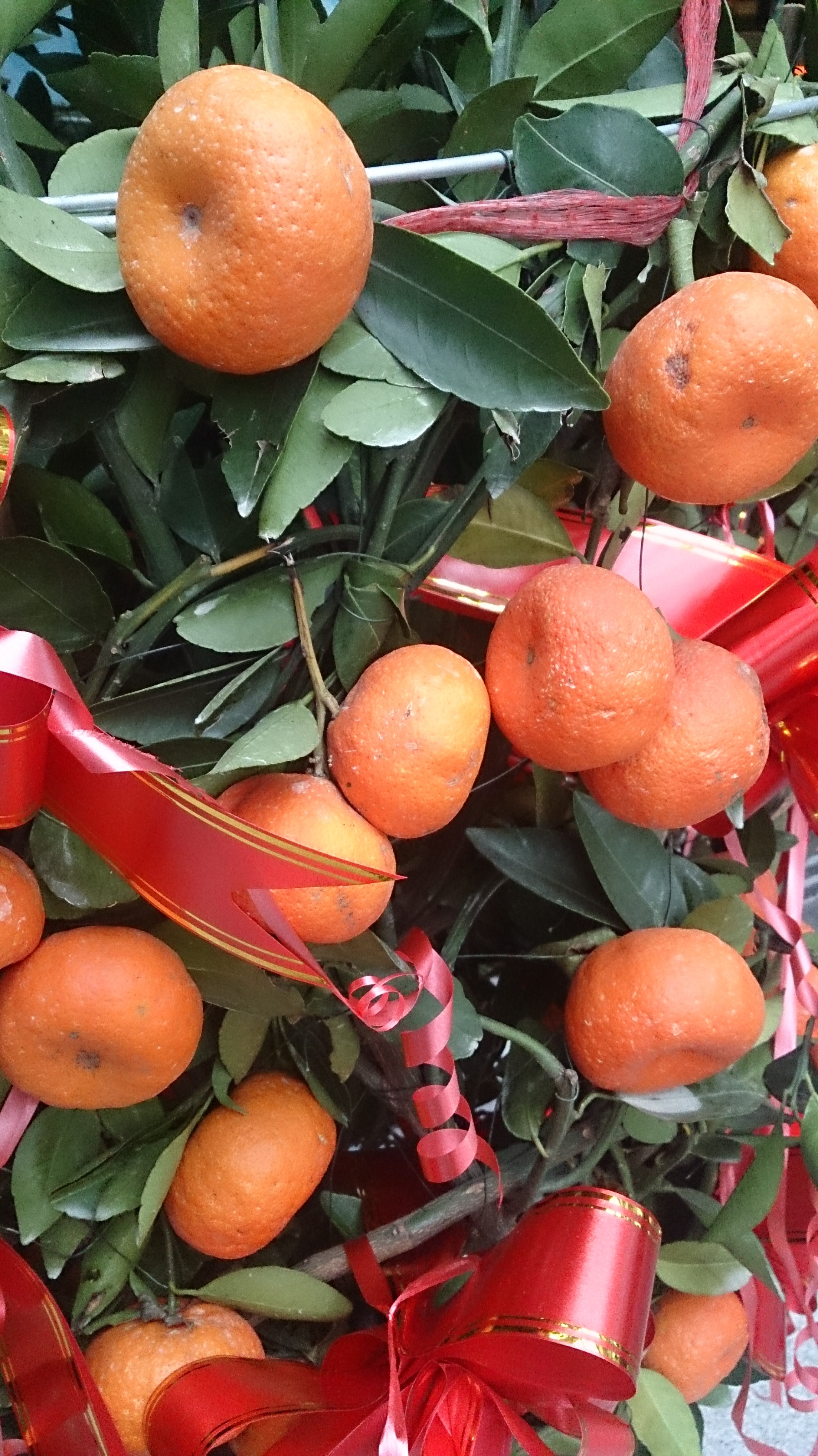 On a live plant